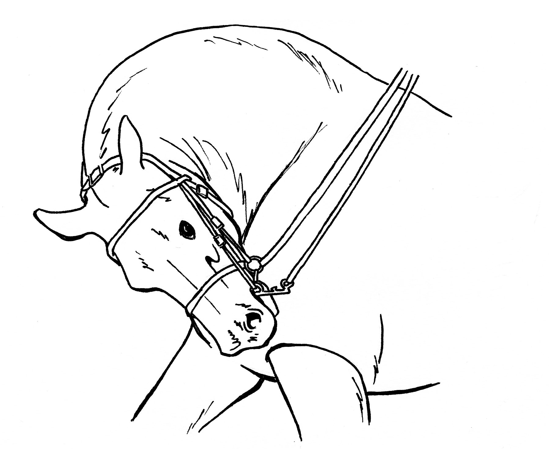 Drawing of a horse during a rollkur/hyperflexion exercise. To compare with photographs, see 1, 2